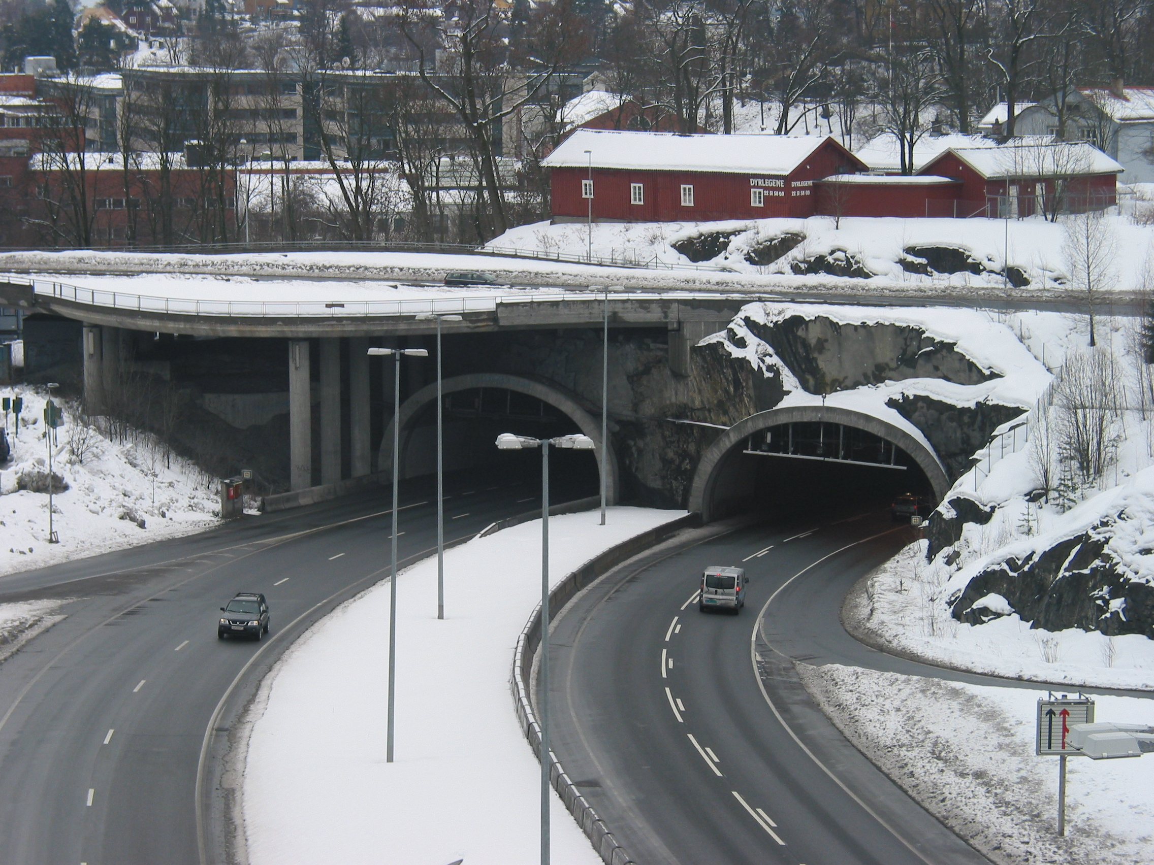 The southernmost of the two Granfos Tunnels, seen from the north, March 2009. The red buildings above it belong to the historical Fåbro farm.